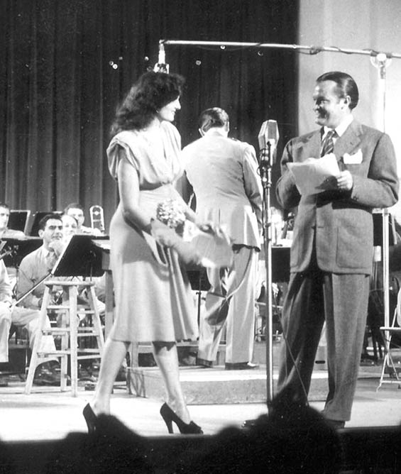 COMMAND PERFORMANCE, CIRCA 1944. Armed Forces Radio Show, CBS Studio, Hollywood. L-R; Jane Russell, Bob Hope; BG: Major Meredith Willson, AFRS Musical Conductor, AFRS Band. Photos provided by: AFRTS Broadcast Center and Defense Visual Information Center, American Forces Information Service 1. This AFRTS Web site is provided as a public service by the Broadcast Center (BC) and the Information Technology Center. 2. Information presented on the AFRTS Web site is considered public information and may be distributed or copied unless otherwise specified. Use of appropriate byline/photo/image credits is requested. This work is in the public domain in the United States because it is a work of the United States Federal Government under the terms of Title 17, Chapter 1, Section 105 of the US Code.